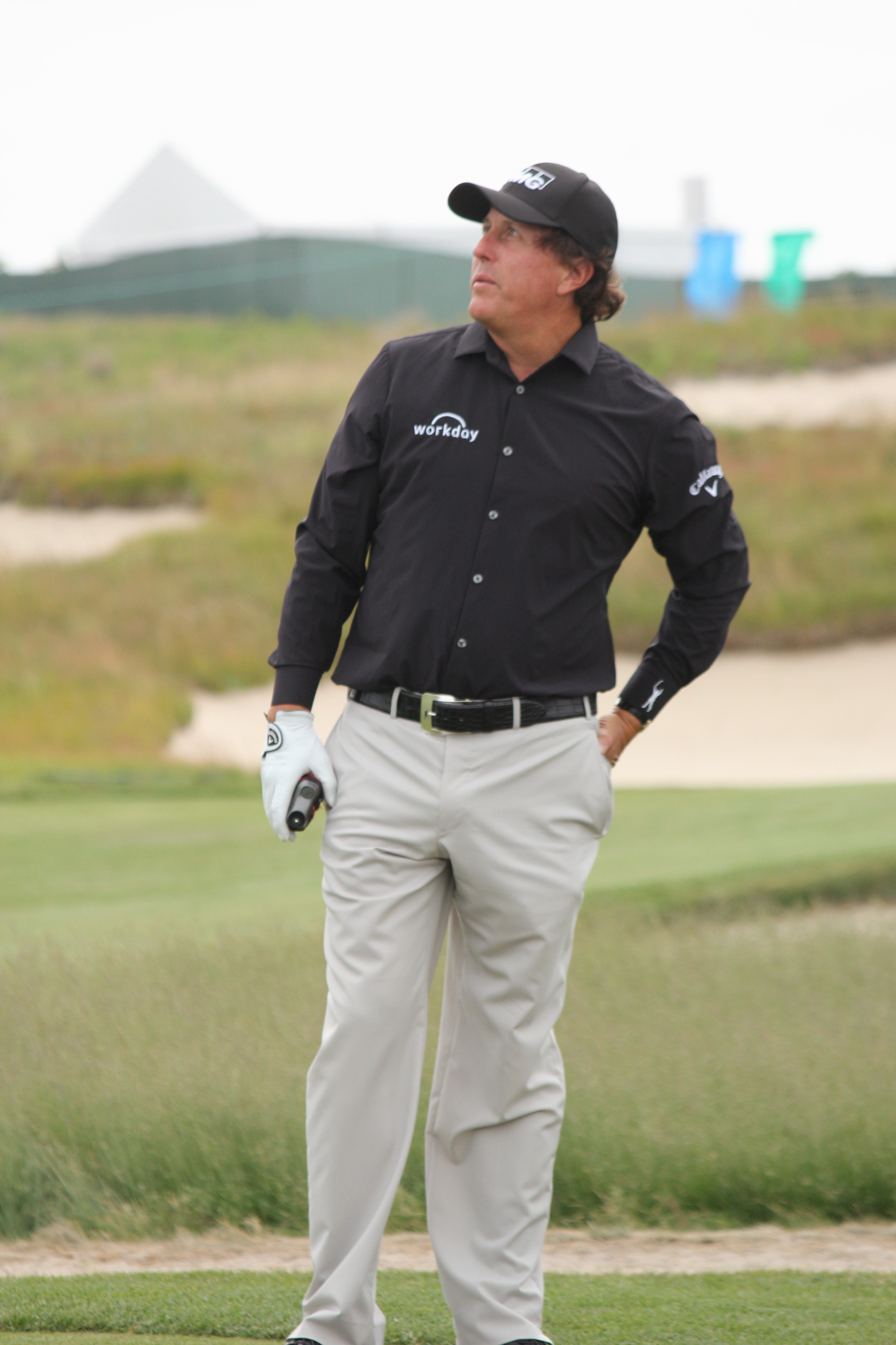 Phil Mickelson at the 2018 US Open